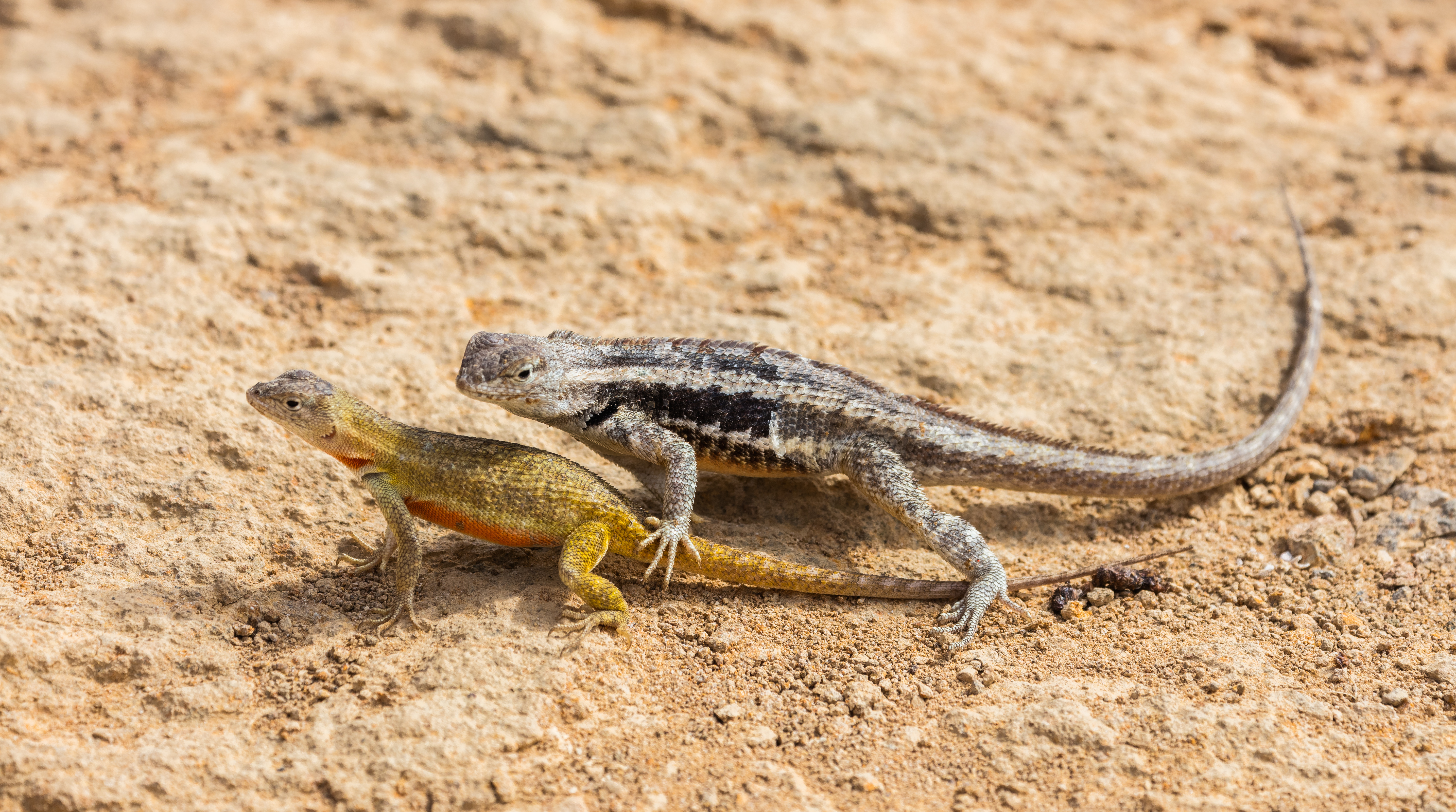 San Cristóbal lava lizard (Microlophus bivittatus), Punta Pitt, San Cristobal Island, Galapagos Islands, Ecuador